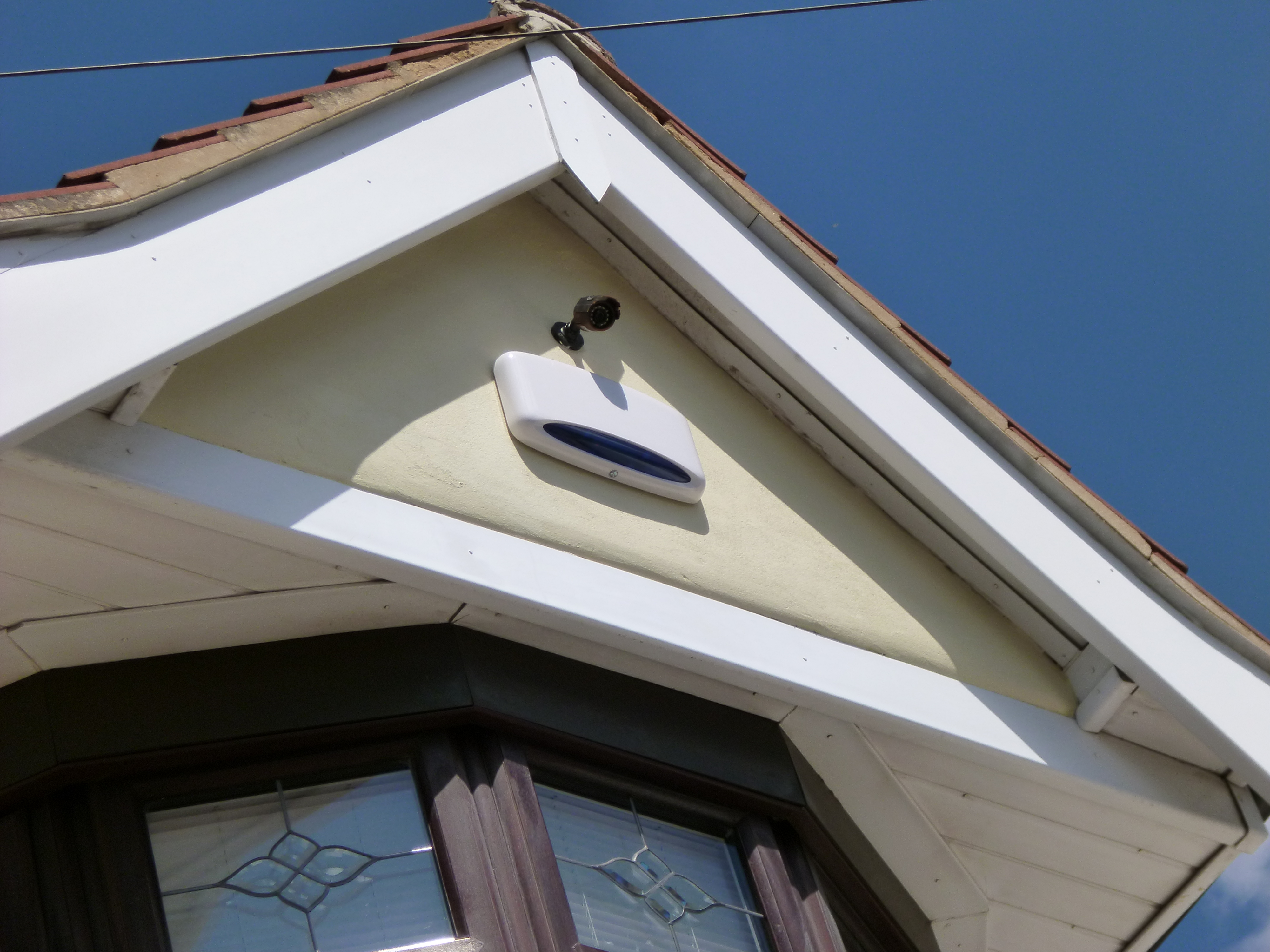 A Klaxon Flashguard external alarm bell box mounted on the front of a house in the UK. This is the warning device used in addition to a burglar alarm system to alert that an alarm event has occurred on the premises. This is a audio/visual deterrent in the act to prevent burglaries. They have comfort lights which are constantly flashing to alert intruders that the system is a live and working system. They also have a strobe flasher which flashes when the alarm is in an alarm condition. The units have a sound output ranging from 105db to 118db. The Klaxon Flashguard unit displayed has a sound output of 118db.